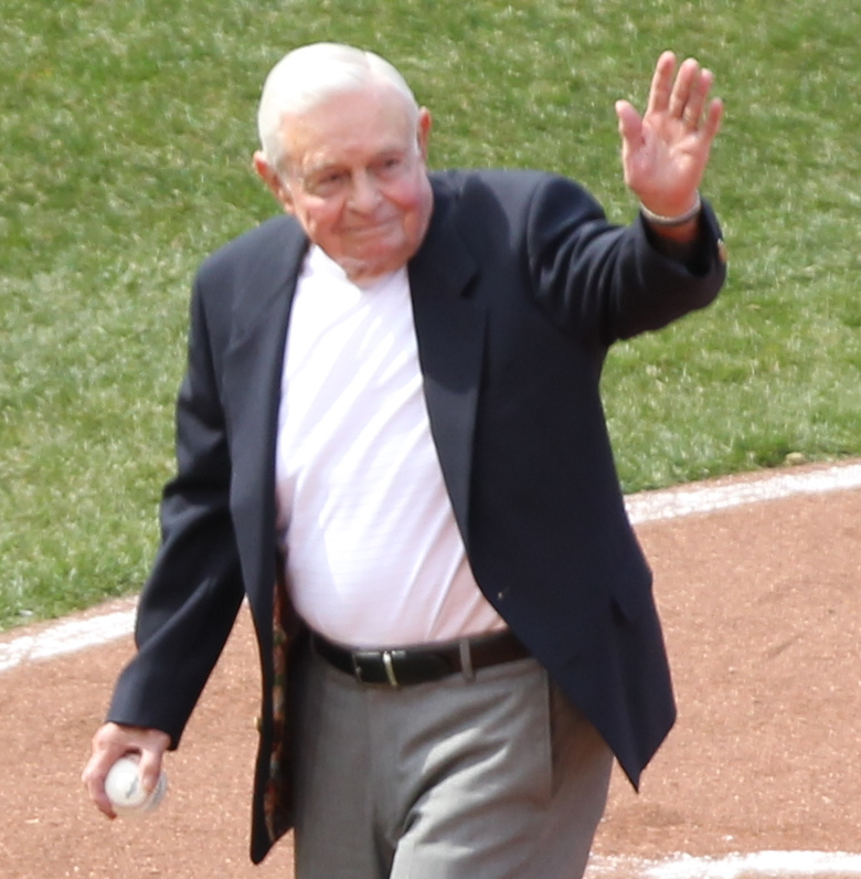 Former Baltimore Orioles manager Earl Weaver at Opening Day, 2011. Photo courtesy of Keith Allison, via Flickr. This file has been extracted from another file: Earl Weaver 2011.jpg